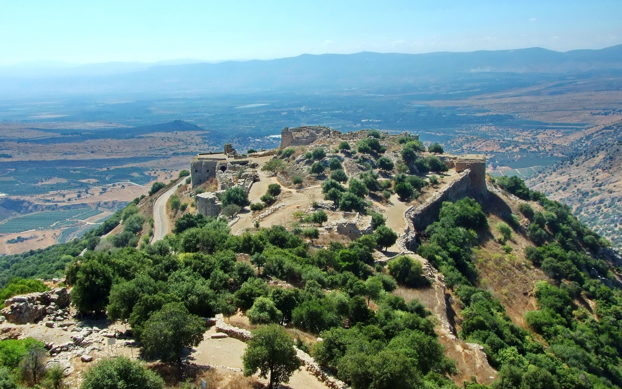 Nimrod Fortress, western side, as seen from its dungeon.